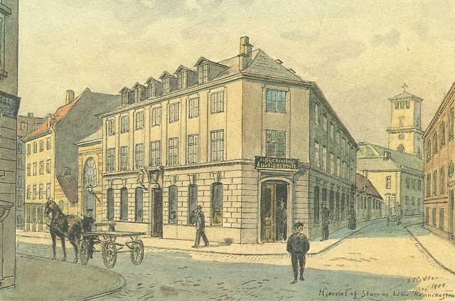 The now demolished building at the corner of Store Kannikestræde and Lille Kannikestræde in Copenhagen, Denmark